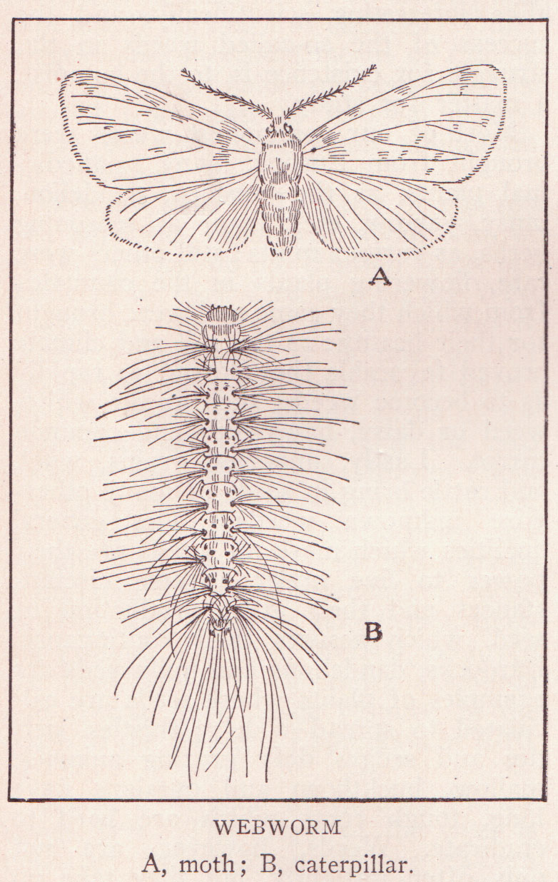 This copyright free illustration of a Webworm in the caterpillar and moth stage is from page 3097. From the public domain book, The Home and School Reference Work by The Home and School Education Society, copyright 1917. Flickr data on 2011-08-18: Tags: 1917, birds, book, copyright free, creative commons, drawings, flickr, free License: CC BY 2.0 User: perpetualplum Sue Clark